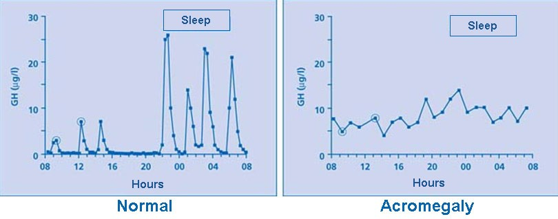 Frequent blood sampling with serum GH measurement shows that in normal subjects (left panel) GH can fluctuate between undetectable levels (most of the time) and peaks of up to 30 μg/l (90 mIU/l), owing to the episodic nature of GH secretion, while in patients with acromegaly (an example is given on right panel), GH hypersecretion is continuous and GH never returns to undetectable levels.